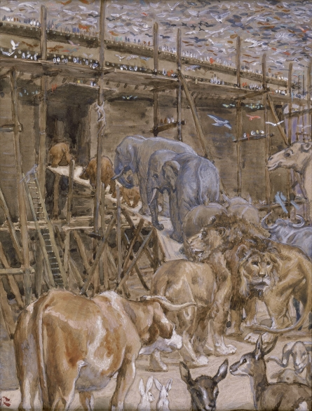 The Animals Enter the Ark, c. 1896-1902, by James Jacques Joseph Tissot (French, 1836-1902), gouache on board, 9 x 6 13/16 in. (22.9 x 17.4 cm), at the Jewish Museum, New York